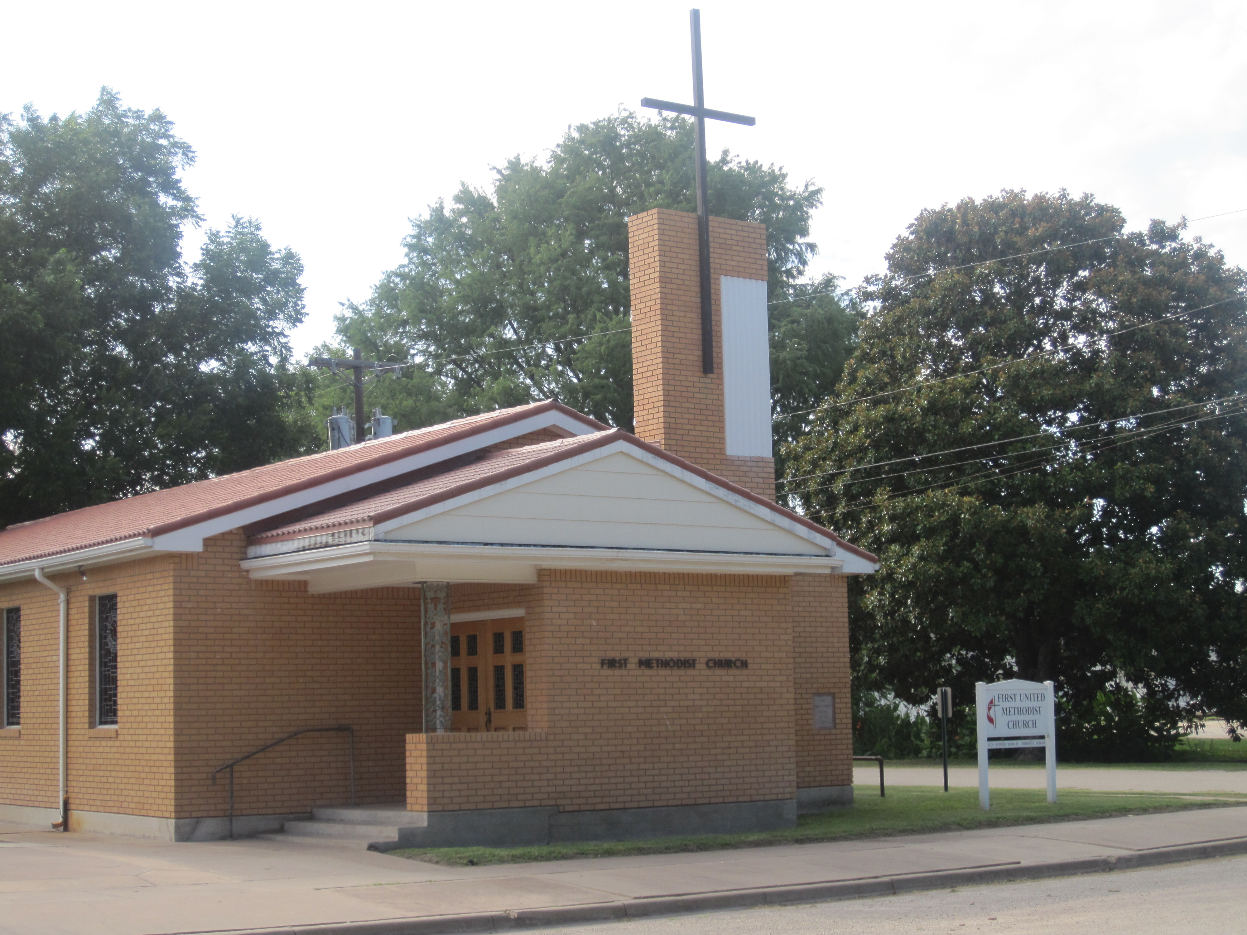 I took photo with Canon camera in Menard, TX.